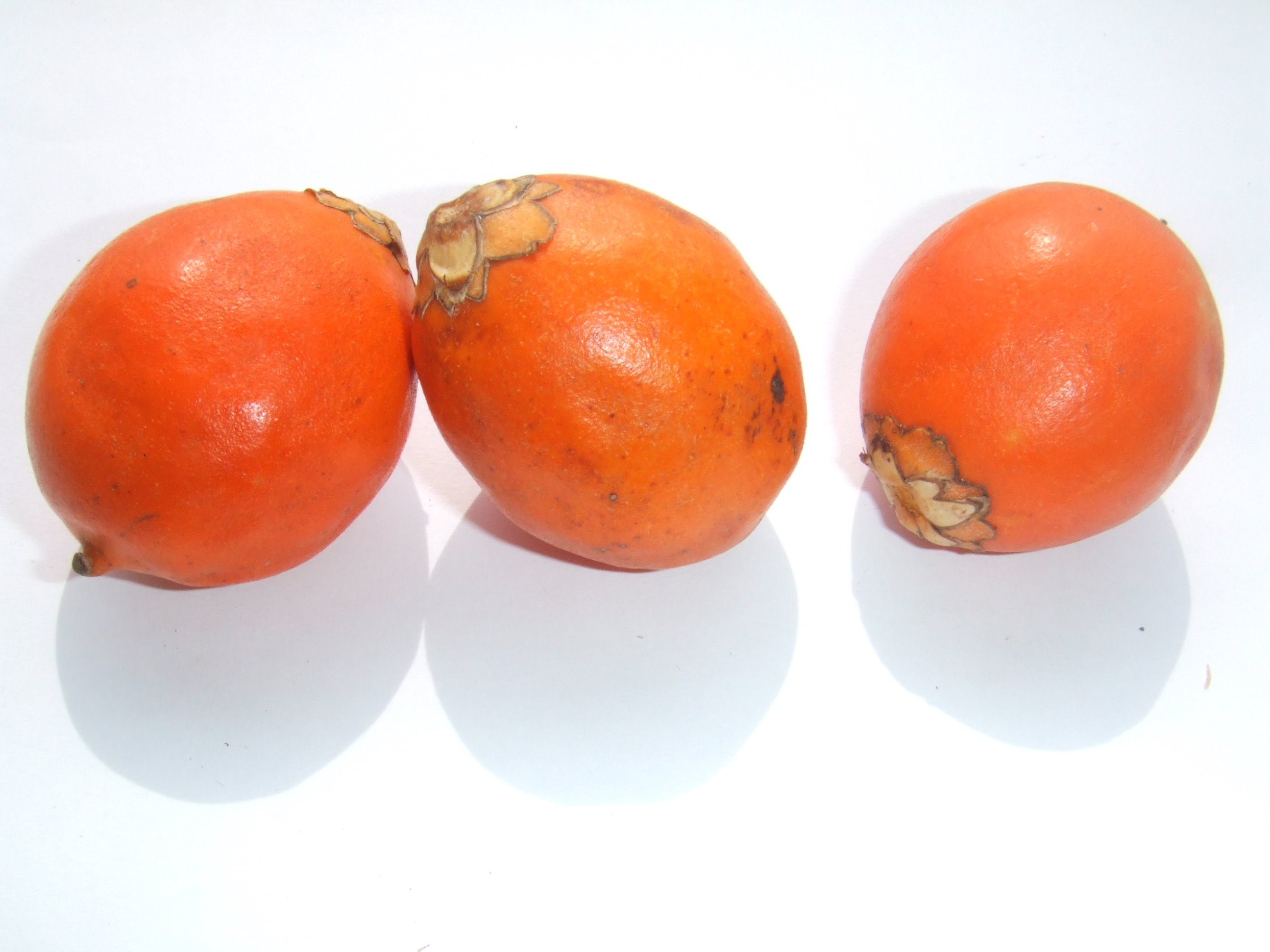 Astrocaryum vulgare (Awarra) bought at the Visserijplein market in Rotterdam, The Netherlands